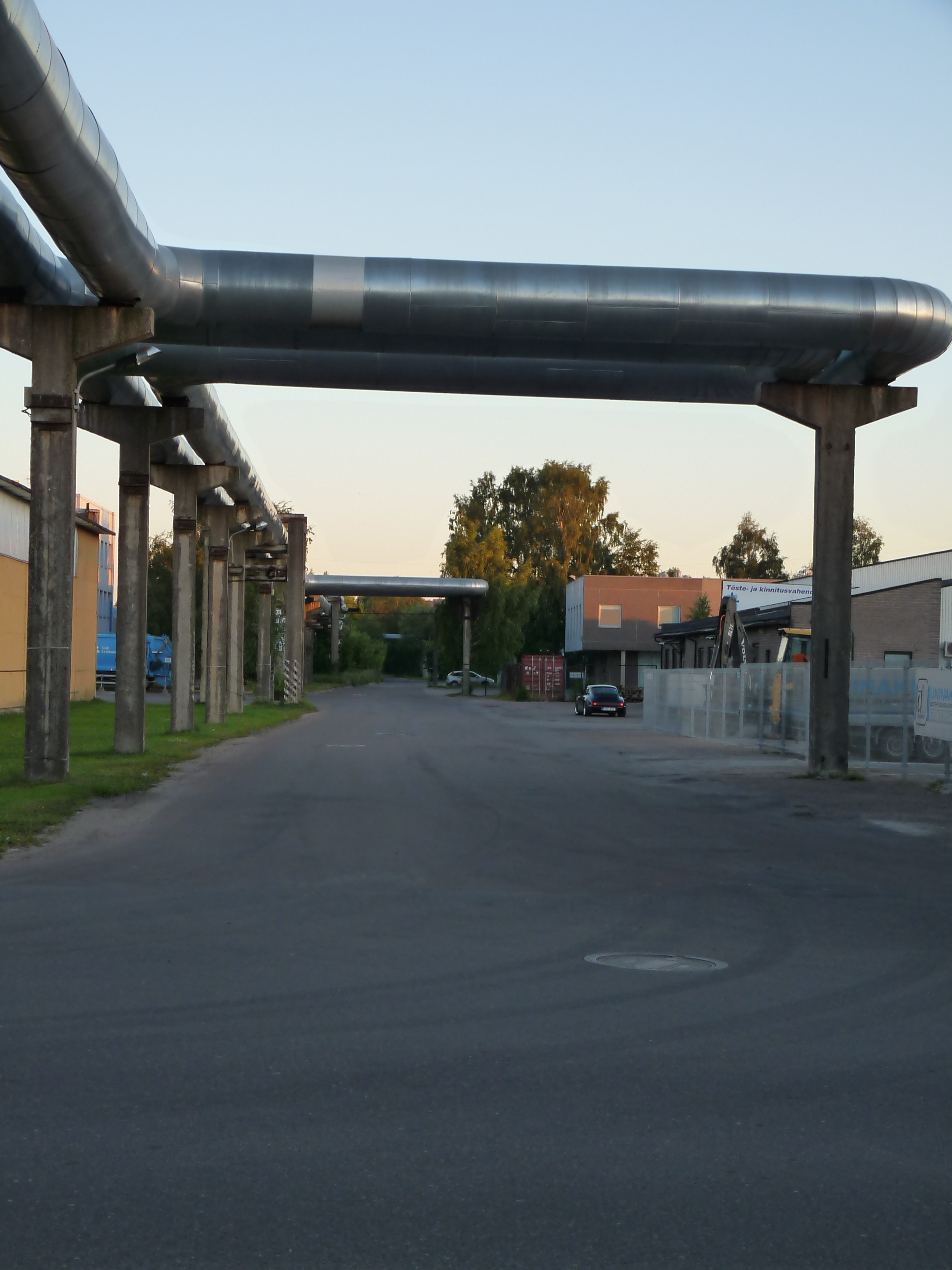 Artelli street in Tallinn, Estonia